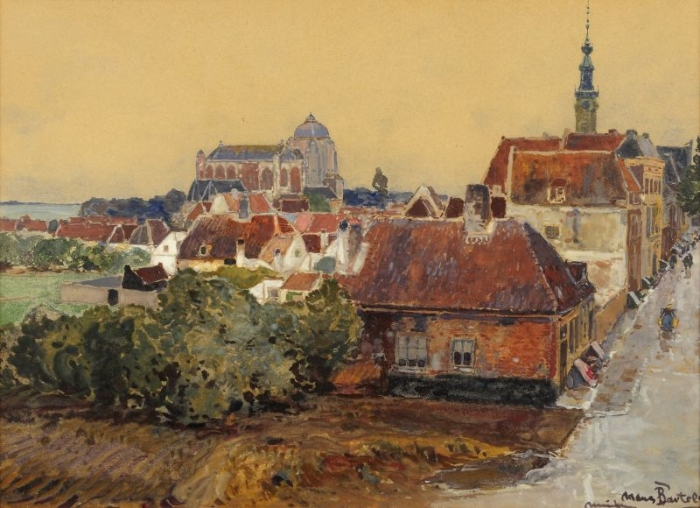 Gezicht op Veere